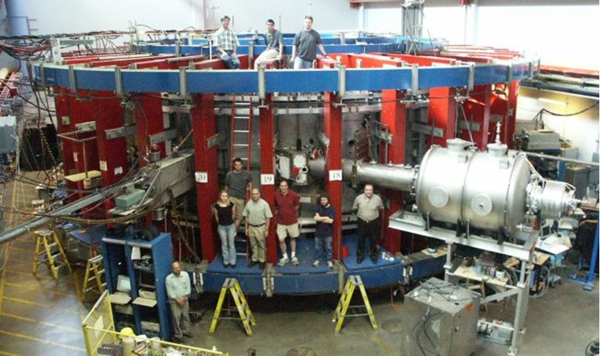 A global view of the Electric Tokamak